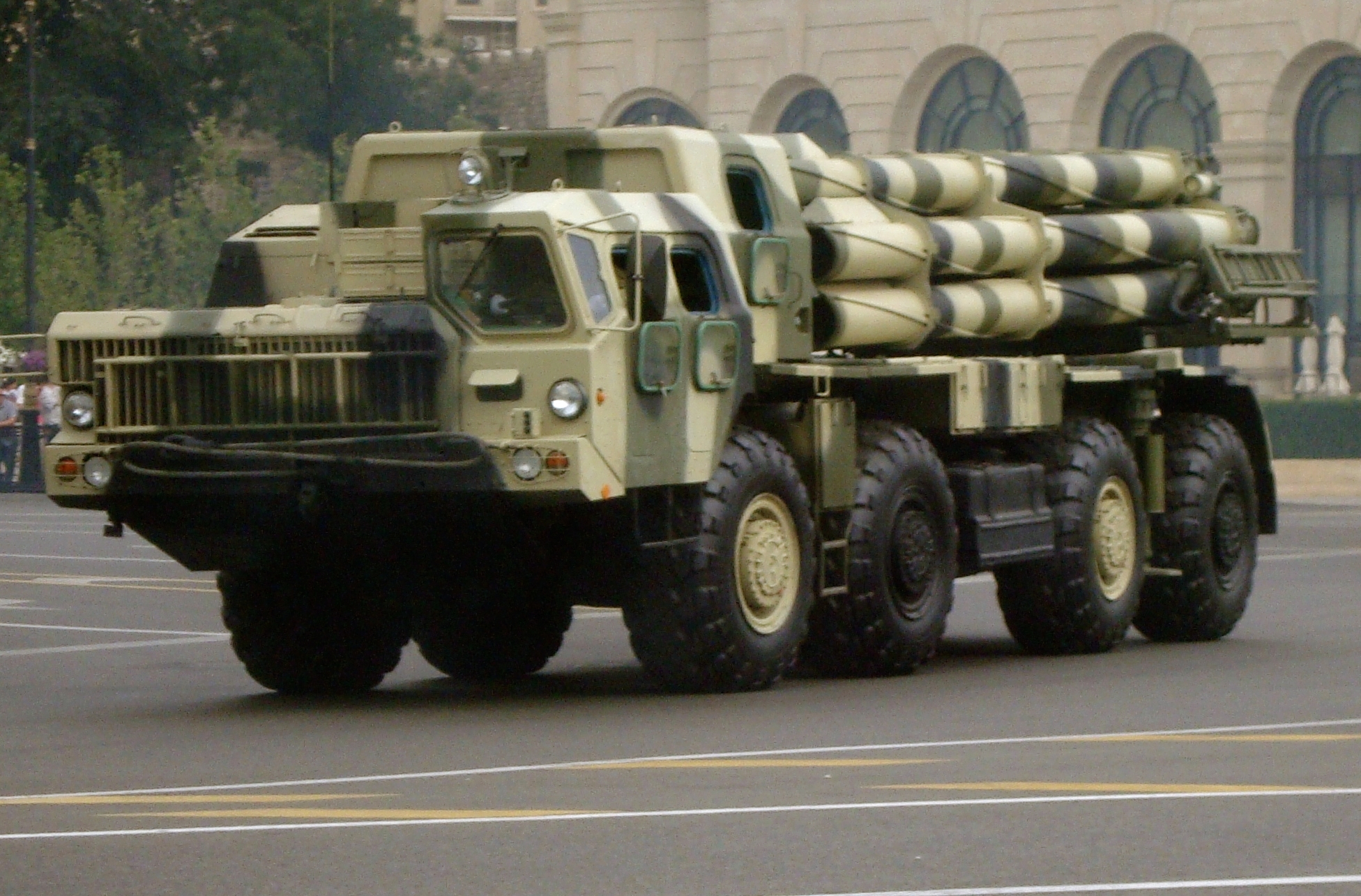 Azeri "Smerch"